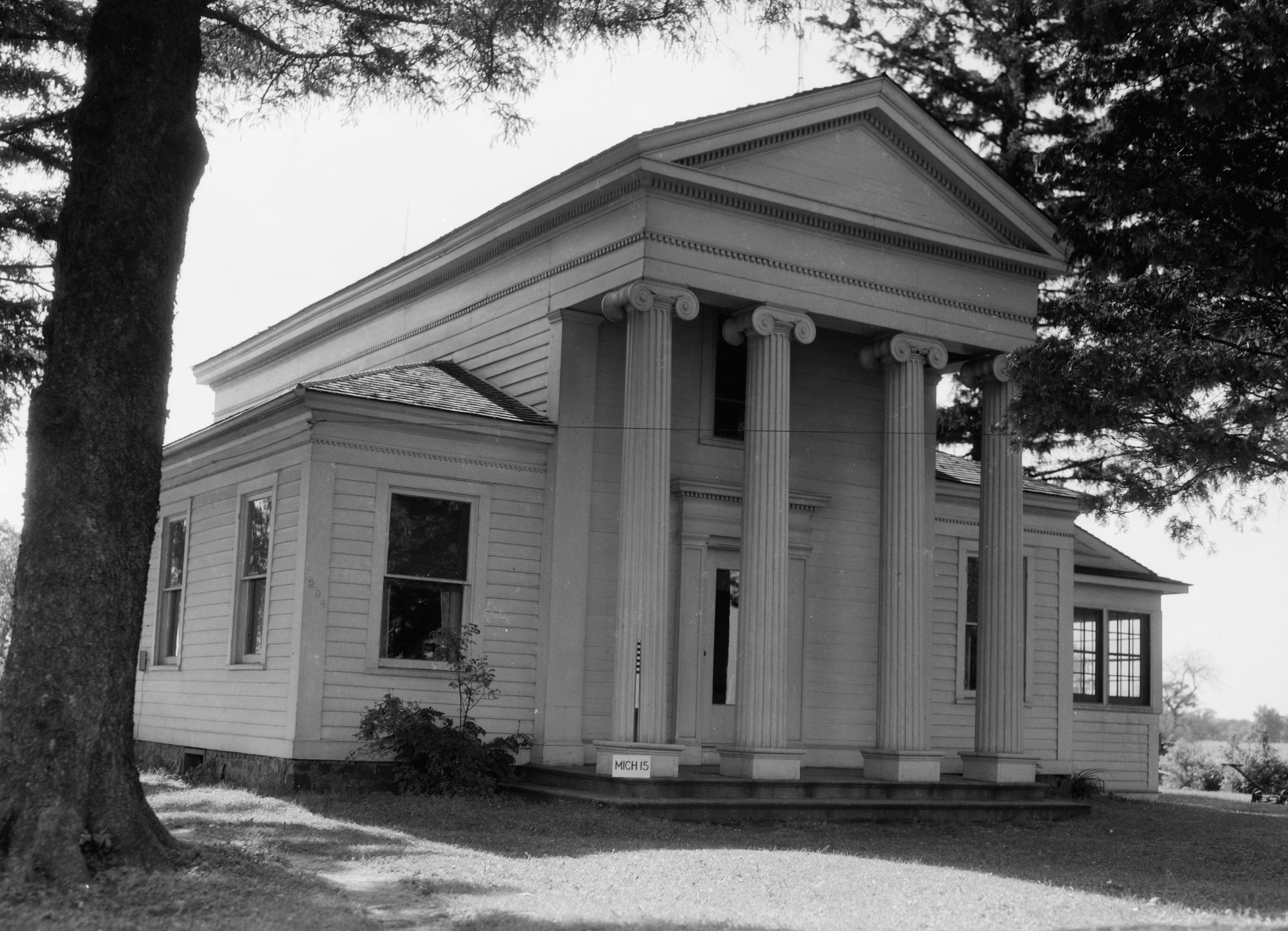 Front and side of the Alonzo W. Olds House, located at 10084 Rushton Road near Rushton in Livingston County, Michigan, United States. Built in 1843, it is listed on the National Register of Historic Places.